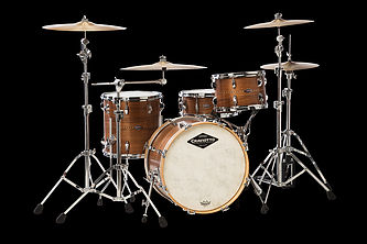 Custom Shop Kit